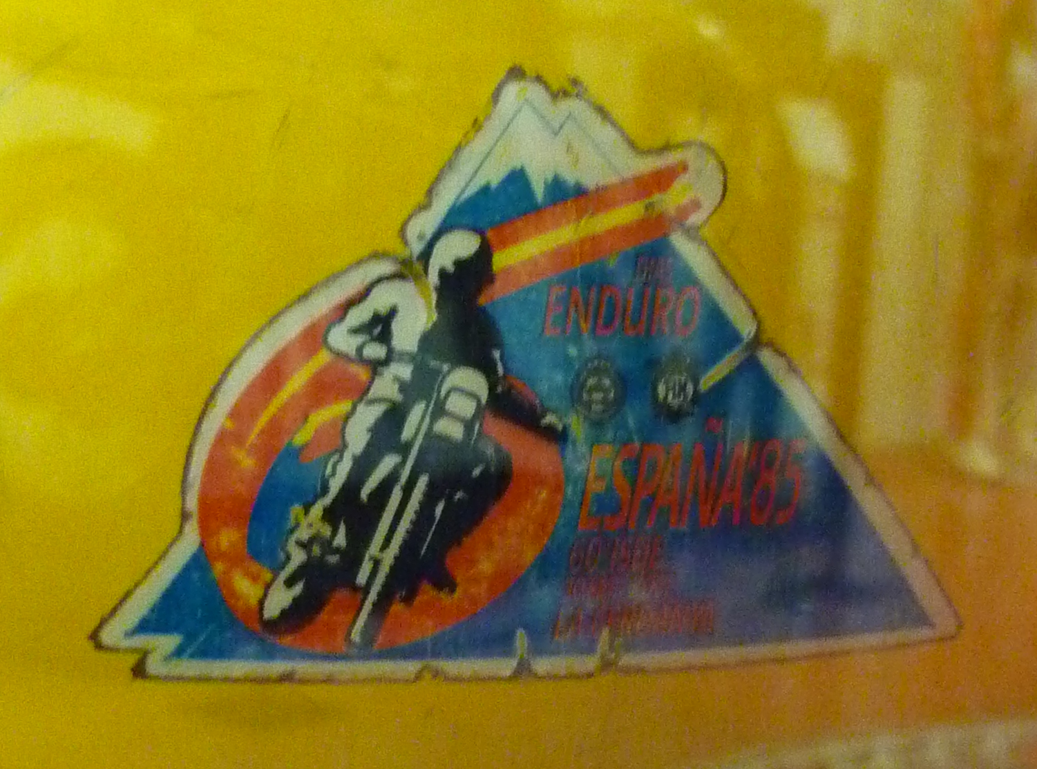 An official sticker of the 60th ISDE in Alp (Catalonia), on a helmet that Francesc Rubio wore